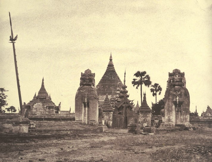 The Shwezigon Pagoda at Pagan/Bagan 1855. This is one of very first photographs of Pagan, taken by the English photographer Linnaeus Tripe who was part of the embassy from Governor-General of India to the Court of Ava.